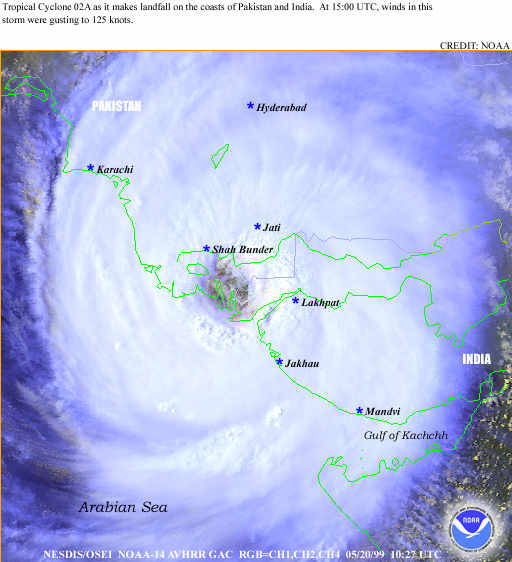 Monster cyclone 2A with large eye making landfall in Pakistan in May, 1999